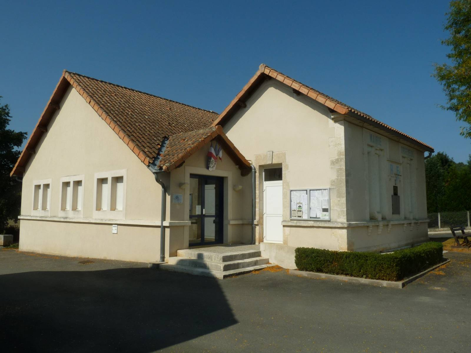 town hall of Orgedeuil, Charente, SW France